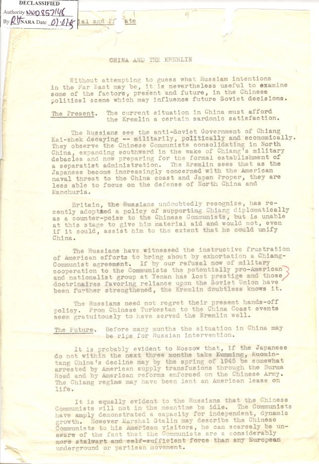 Page One of John Paton Davies' report warning about the influence of the Soviet Union on the Chinese Communist and America's failure to adequately address the problem (i.e. failure to participate in realpolitik). Created from a scan of the original document at the National Archives II, College Park, Maryland.